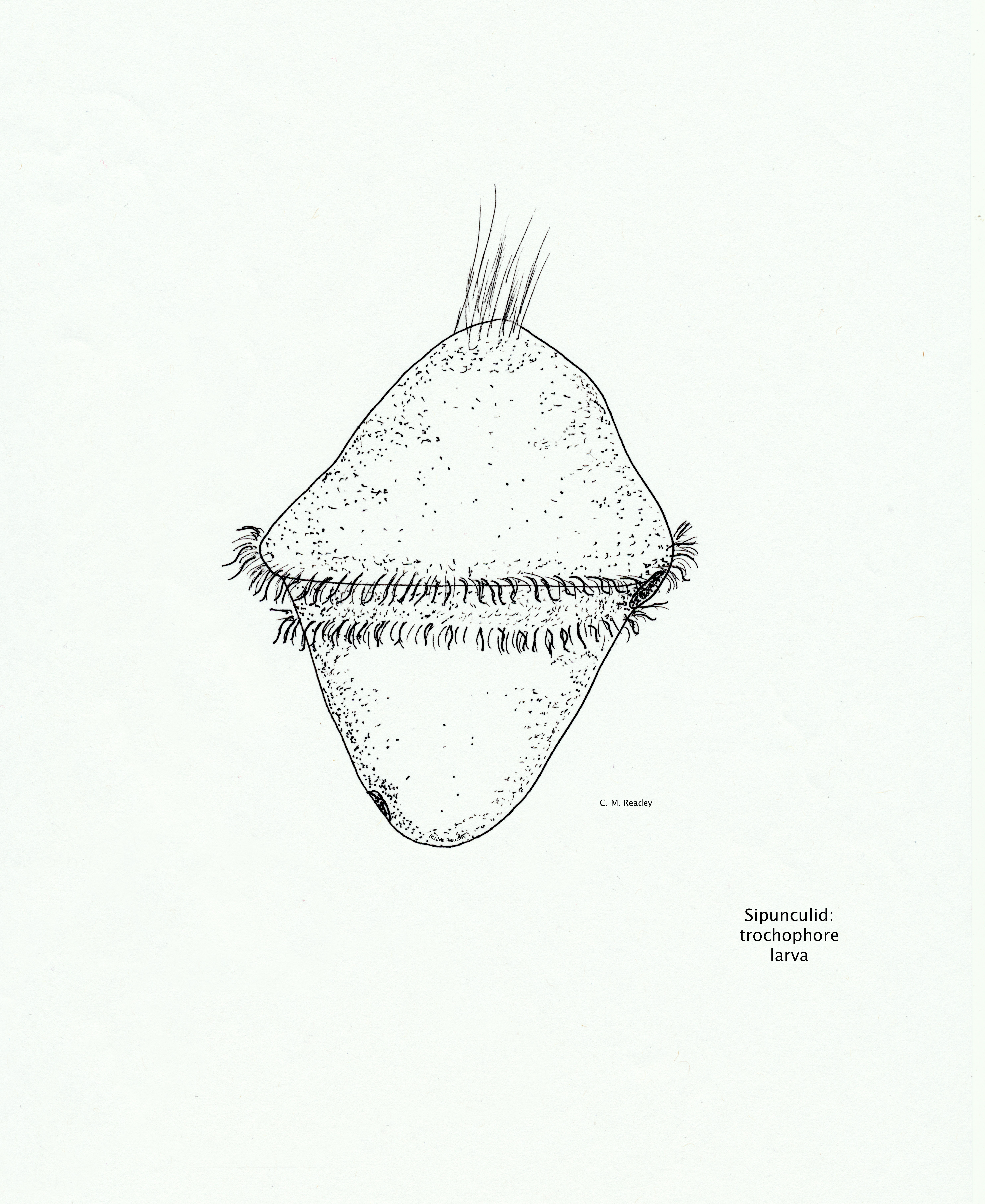 The classic trochophore larva of the sipunculid worm. Sipunculids are non-segmented lophotrochozoans with an anterior introvert. Traditionally considered a pPhylum (Sipuncula), but some data suggest they should be considered a member of the Annelida. (see:Struck, T. H.; Paul, C.; Hill, N.; Hartmann, S.; Hösel, C.; Kube, M.; Lieb, B.; Meyer, A. et al. (2011). "Phylogenomic analyses unravel annelid evolution". Nature 471 (7336): 95–98. PMID 21368831)